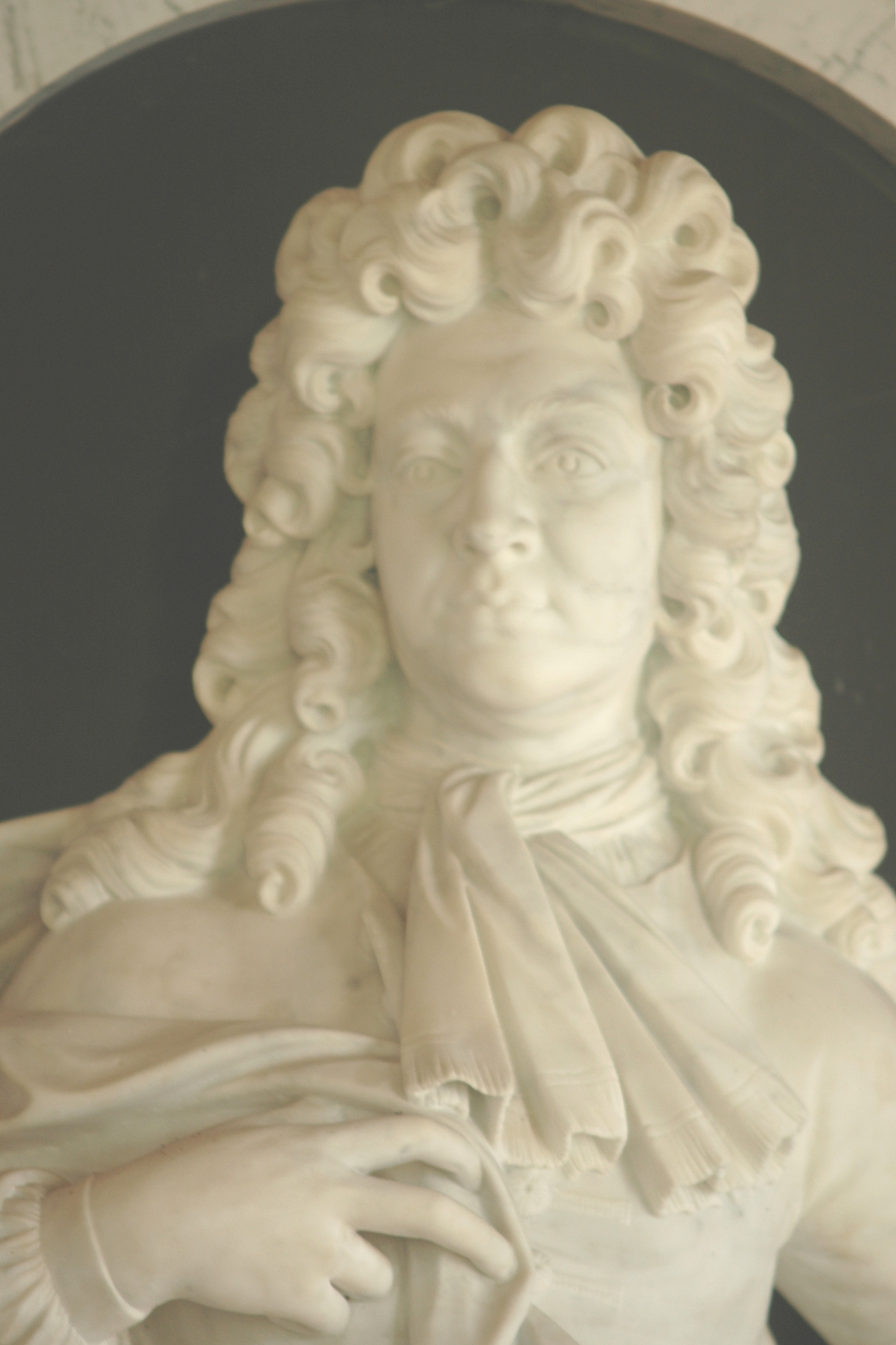 Detail of memorial to Sir Thomas Spencer (died 1684) in Spencer Chapel at the Church of England parish church of St. Bartholomew, Yarnton, Oxfordshire